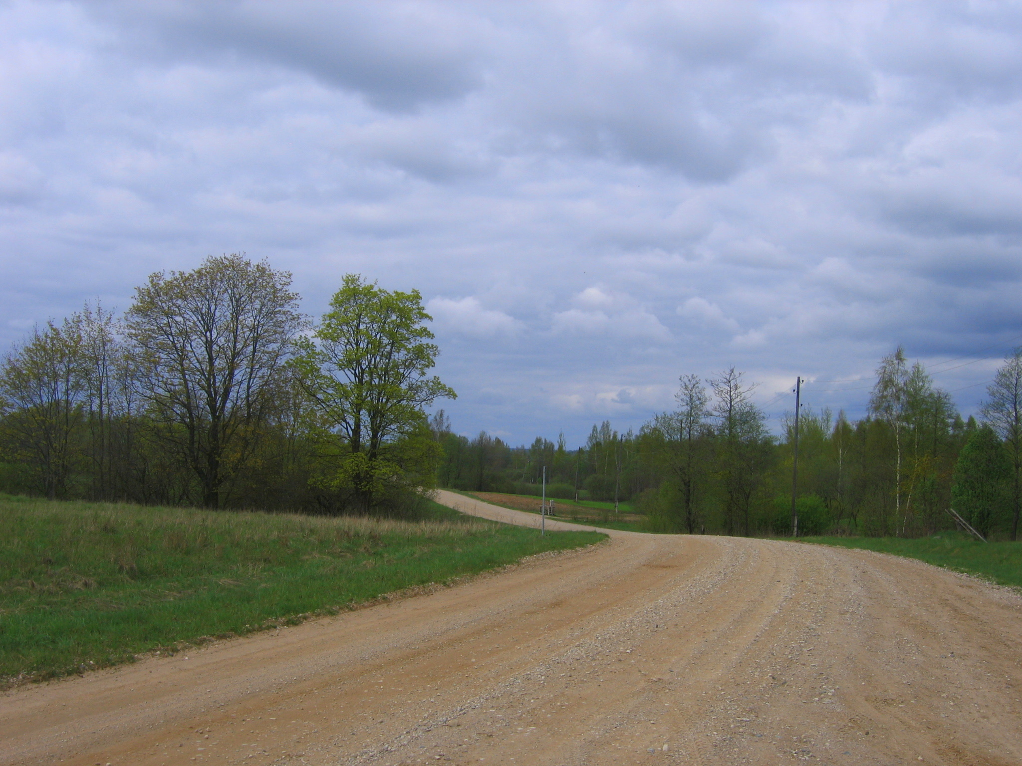 Road near Dzenigali